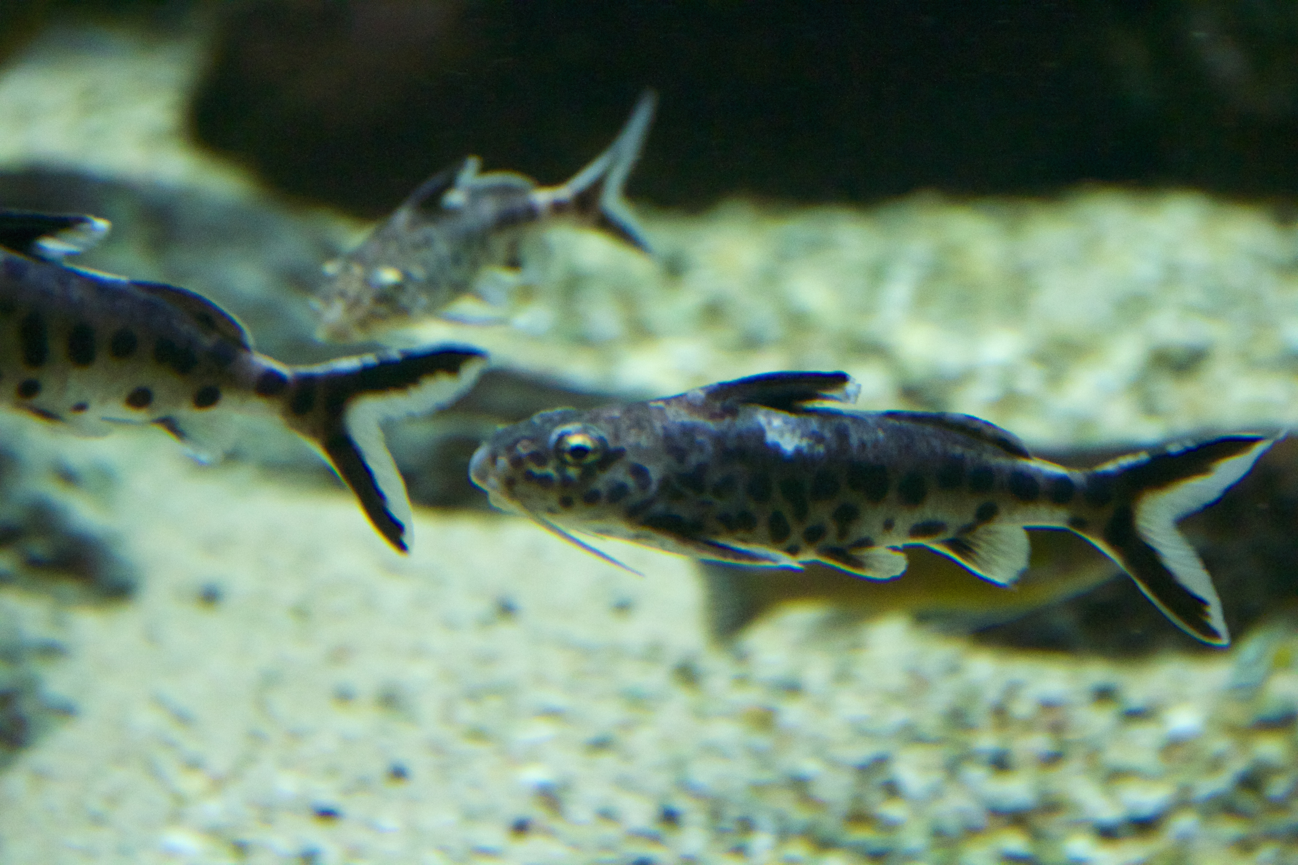 Kuckuckswels. Spotted Synodontis. Synodontis petricola. Tananjikasse, Afrika. At Frankfurt Zoo.